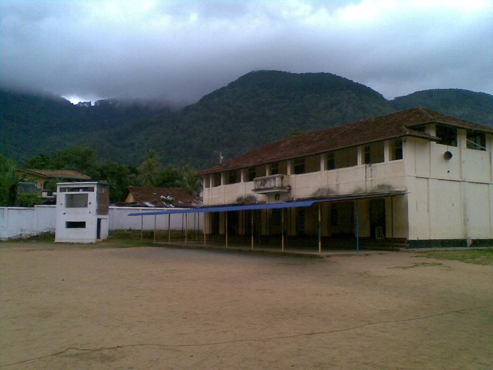 STC,Matale